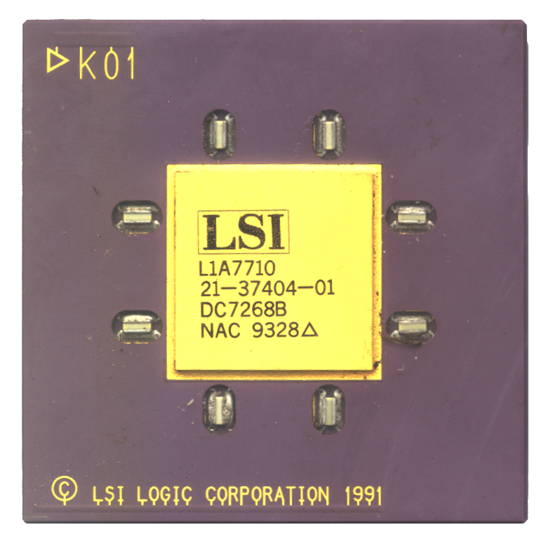 IC photo